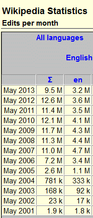 Summary timeline table of article edits per month on English Wikipedia, and all Wikipedias. It includes redirects, too. Edits from registered users, unregistered contributors, and bots. Cropped from Wikipedia Statistics - Tables - Edits per month. This chart shows 3.2 million edits in May 2013 on English Wikipedia, and 1,800 edits in May 2001 on English Wikipedia. The chart shows 9.5 million edits in May 2013 for all Wikipedias in all languages. A more detailed monthly breakdown for English Wikipedia is here: Wikipedia Statistics - Tables - English. See the top chart and the "Database" header, and then the "edits" column. That column shows monthly article edit totals (edits from all sources) going back all the way to Jan. 2001 when Wikipedia started. Note: Bot edits need to be separated out since their totals can vary greatly month to month. Separate columns are needed for monthly edit totals for registered users, anonymous users, and bots. This link goes to the section concerning anonymous contributors. It states: "No detailed statistics for anonymous users are available for this wiki (performance reasons). All together 109,370,998 article edits were made by anonymous users, out of a total of 366,162,033 article edits (30%)" That is what it said on June 30, 2013. Those are totals since Wikipedia started in January 2001.